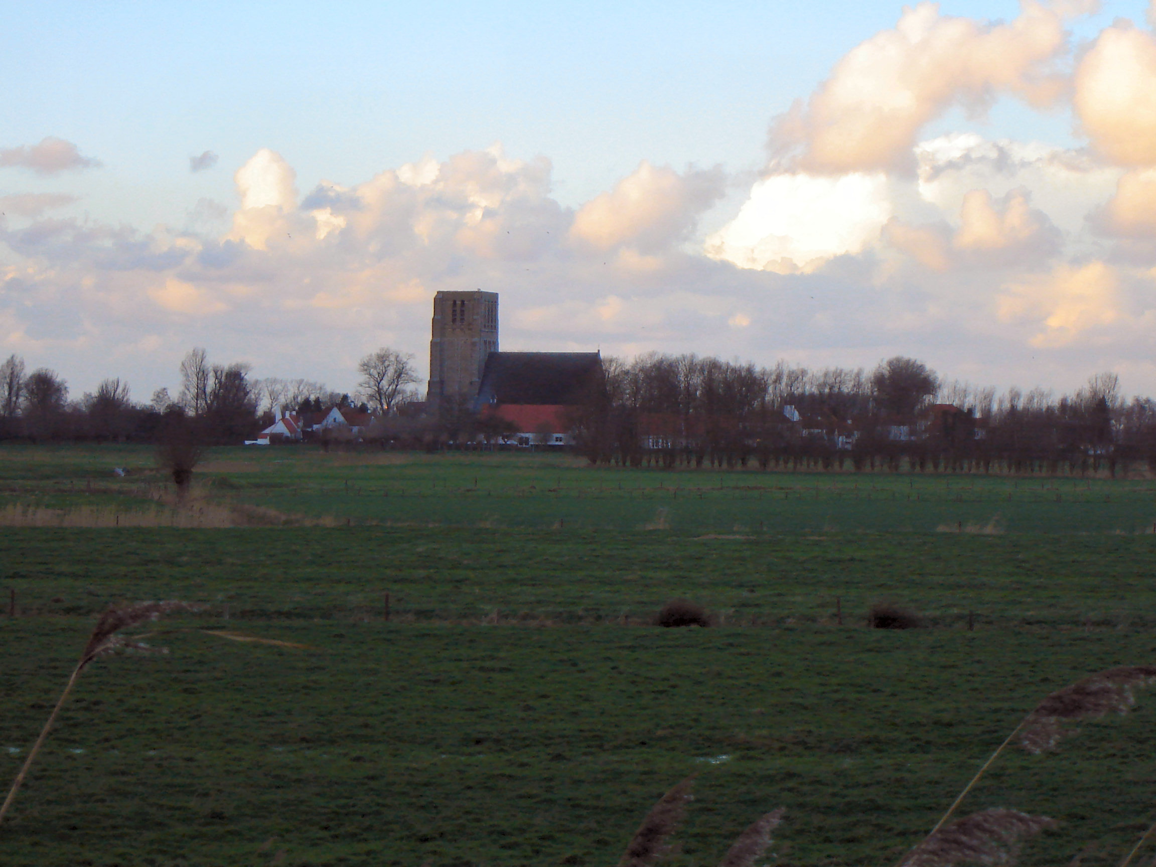 Skyline of the village of Oostkerke, Damme, West-Flanders, Belgium.